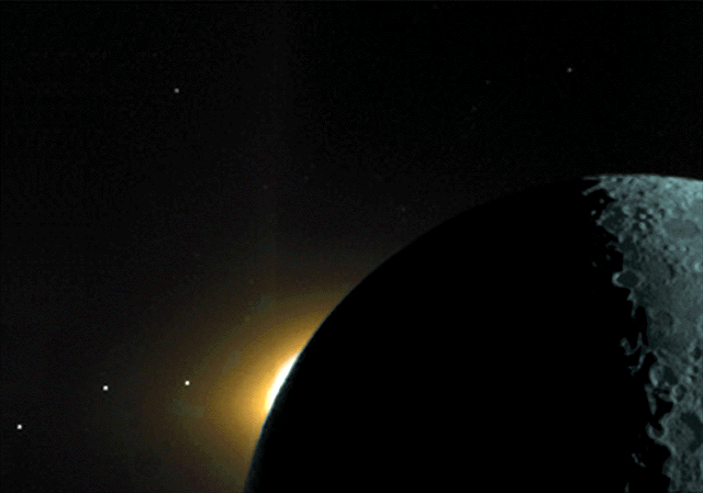 The Plane of Ecliptic is illustrated in this Clementine star tracker camera image which reveals (from right to left) the Moon lit by Earthshine, the Sun's corona rising over the Moon's dark limb, and the planets Saturn, Mars, and Mercury. The ecliptic plane is defined as the imaginary plane containing the Earth's orbit around the Sun. In the course of a year, the Sun's apparent path through the sky lies in this plane. The planetary bodies of our solar system all tend to lie near this plane, since they were formed from the Sun's spinning, flattened, proto-planetary disk. The snapshot above nicely captures a momentary line-up looking out along this fundamental plane of our solar system.